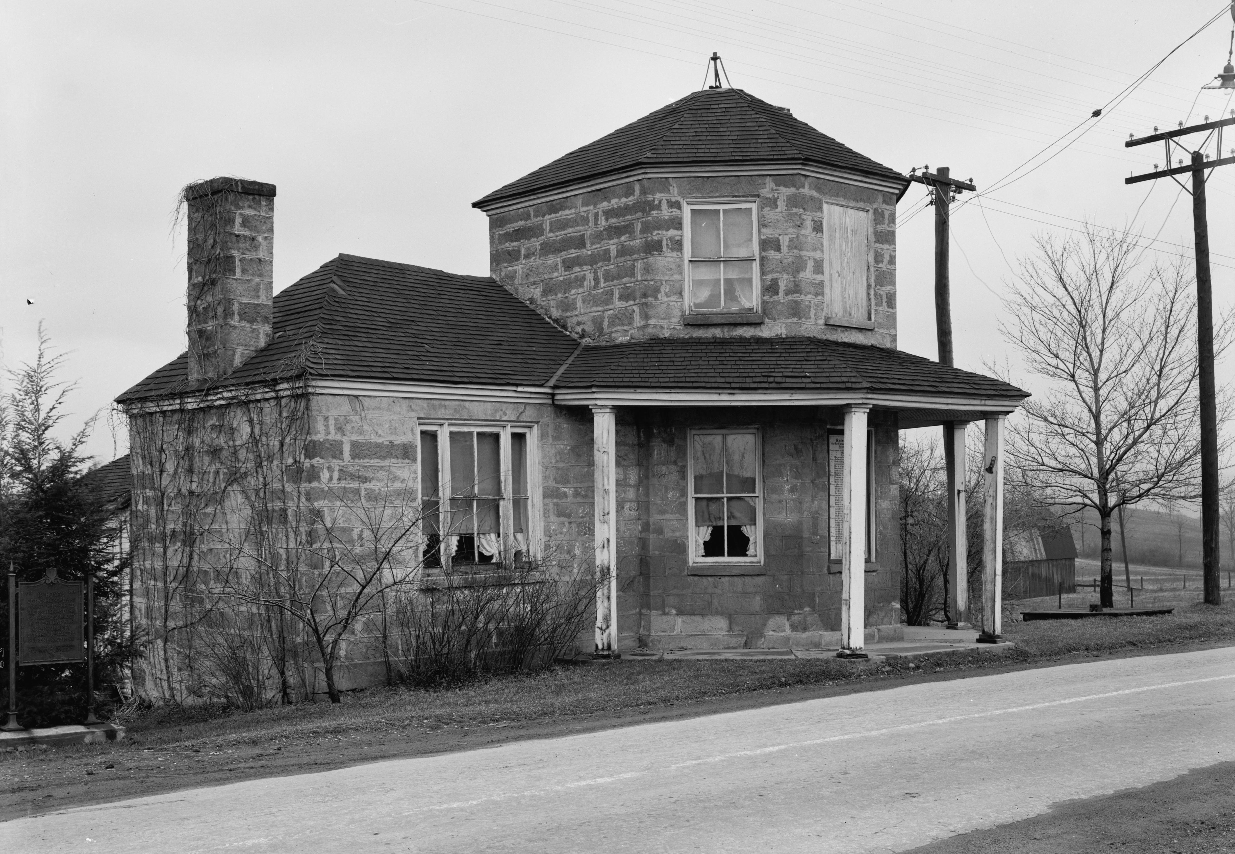 Front of the Petersburg Tollhouse, located along Main Street (the old National Road) in Addison, Pennsylvania, United States. Built in 1835, it is listed on the National Register of Historic Places.